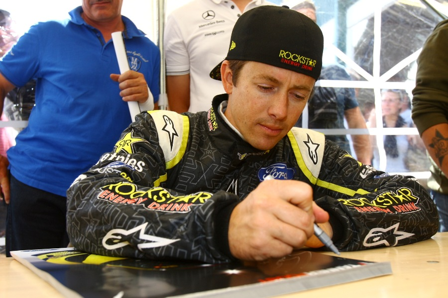 US racer Tanner Foust pictured while signing posters for the fans during the 2011 Belgian round of the FIA European Championships for Rallycross Drivers at the Duivelsbergcircuit in Maasmechelen.